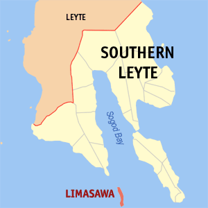 Map of Southern Leyte showing the location of Limasawa